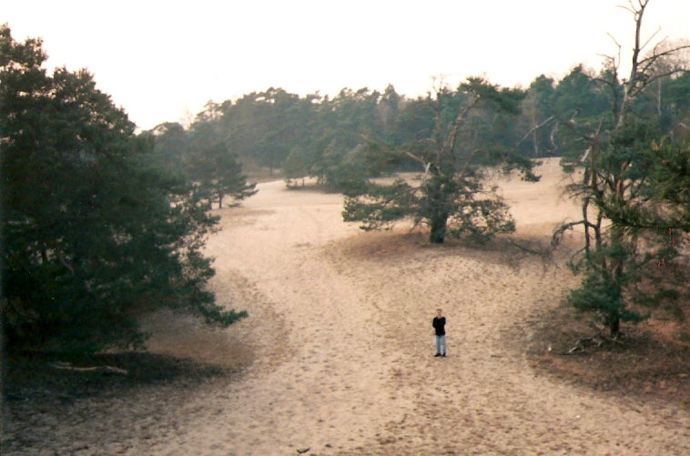 View on the Verden Dunes